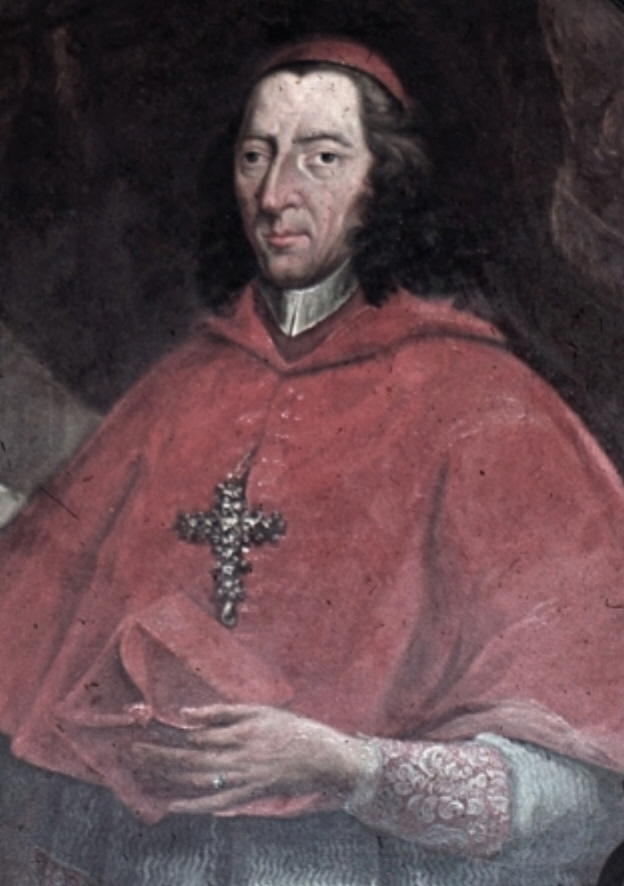 Portrait of Joseph Dominikus von Lamberg (1680-1761), Prince-Bishop of Passau